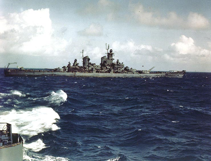 The U.S. Navy battleship USS New Jersey (BB-62) at sea with the Pacific Fleet, 1944-45. Note the Independence-class aircraft carrier visible just above New Jersey´s bow.